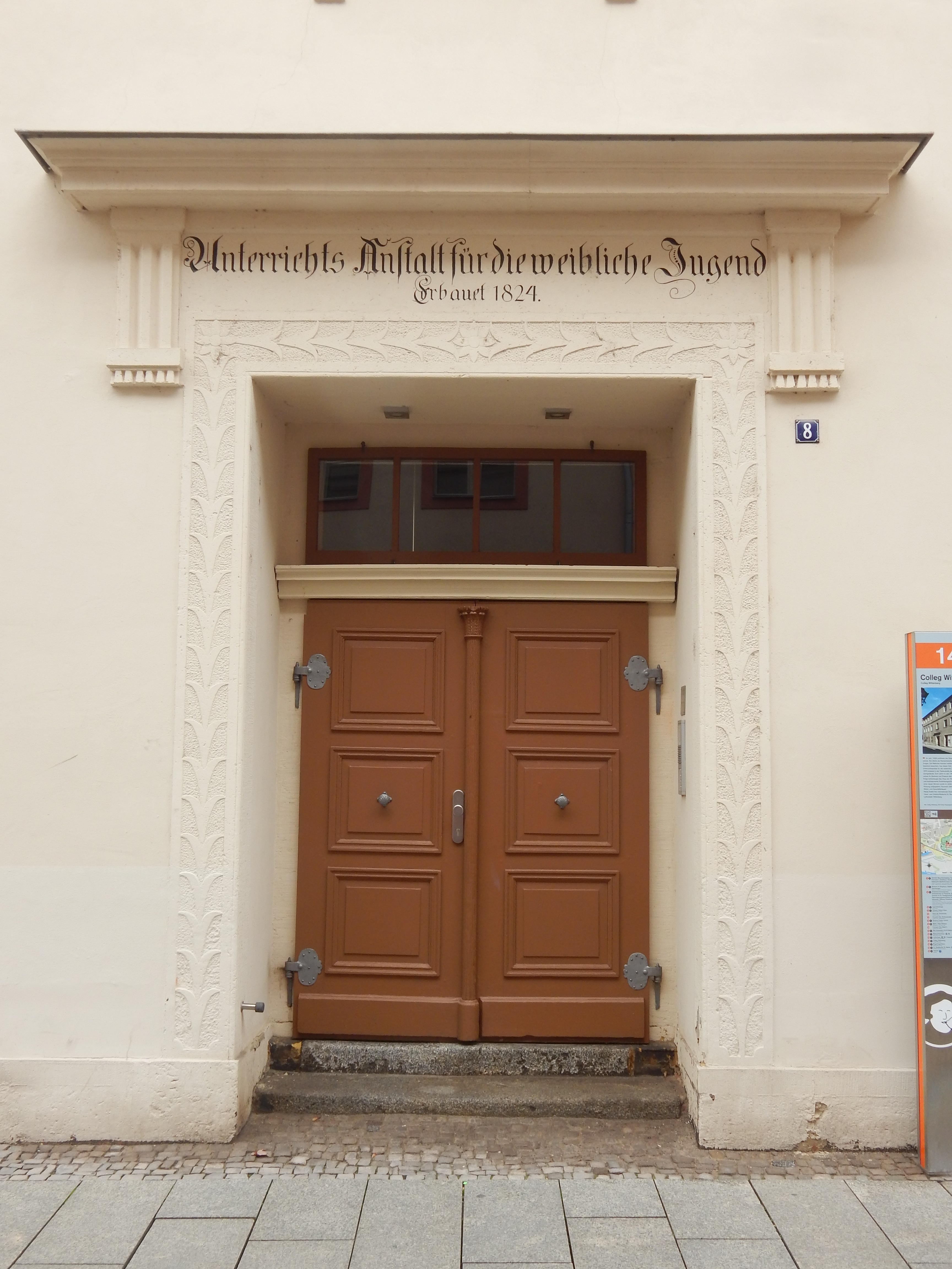 "Unterrichts Anstalt für die weibliche Jugend" (School for Girls), errected 1824, Jüdengasse 8, Wittenberg (Lutherstadt)